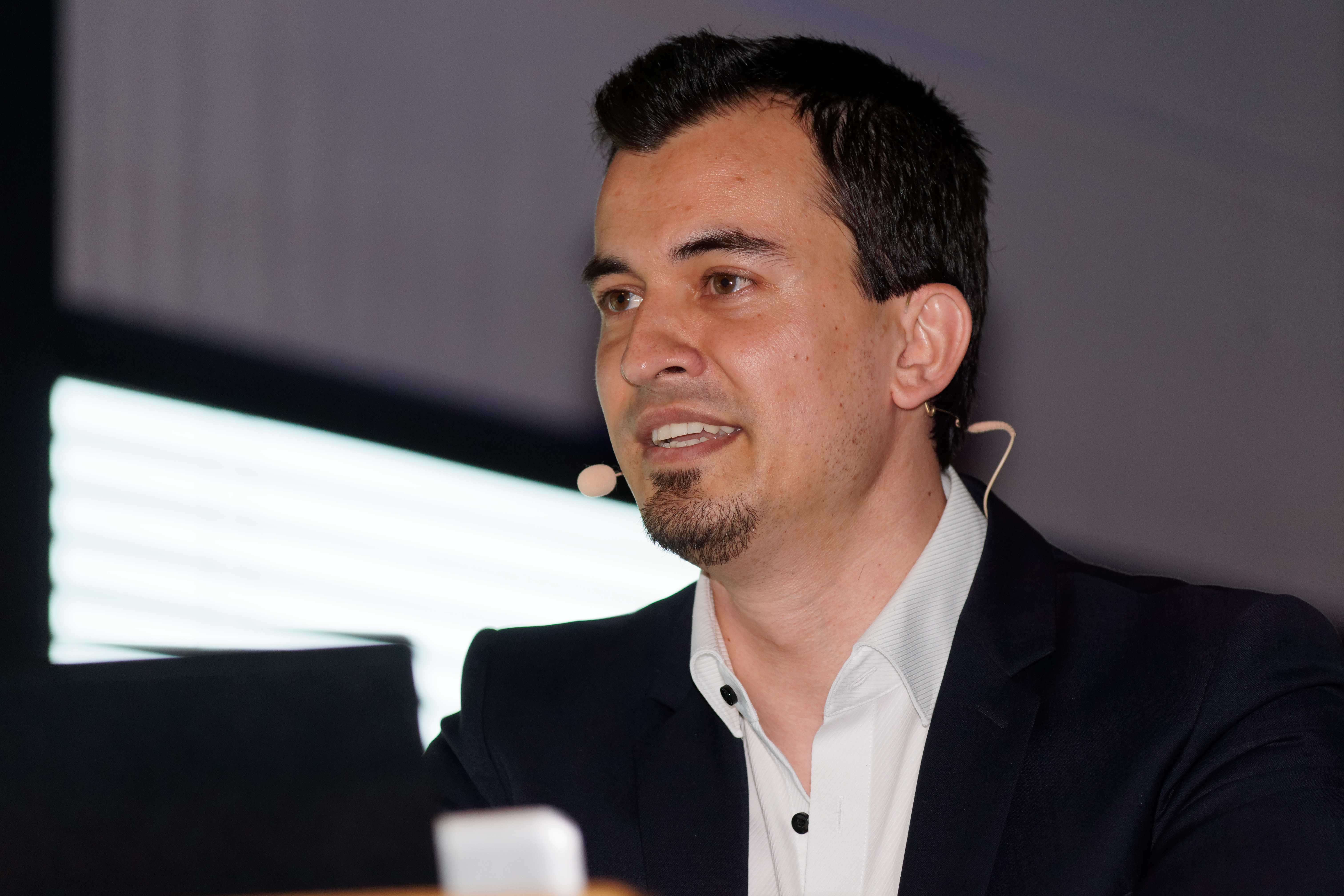 This is German philosopher and writer Nikil Mukerji holding a speech at SkepKon 2018.